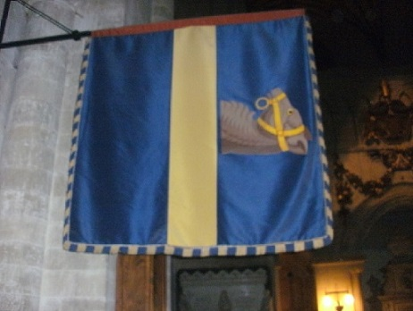 Banner of a Knight of the Order of the Garter (KG), in this case that of Alexander Baring, 6th Baron Ashburton (died 1991), in Winchester Cathedral. Location: South Transept.